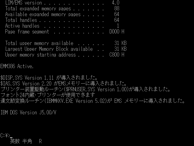 Screenshot of IBM DOS version J5.02/V released on March 18, 1992 in Japan (March 17, 1992 in the United States) by International Business Machines Corporation.